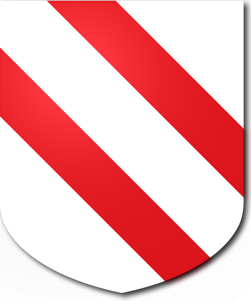 Amigo family shield